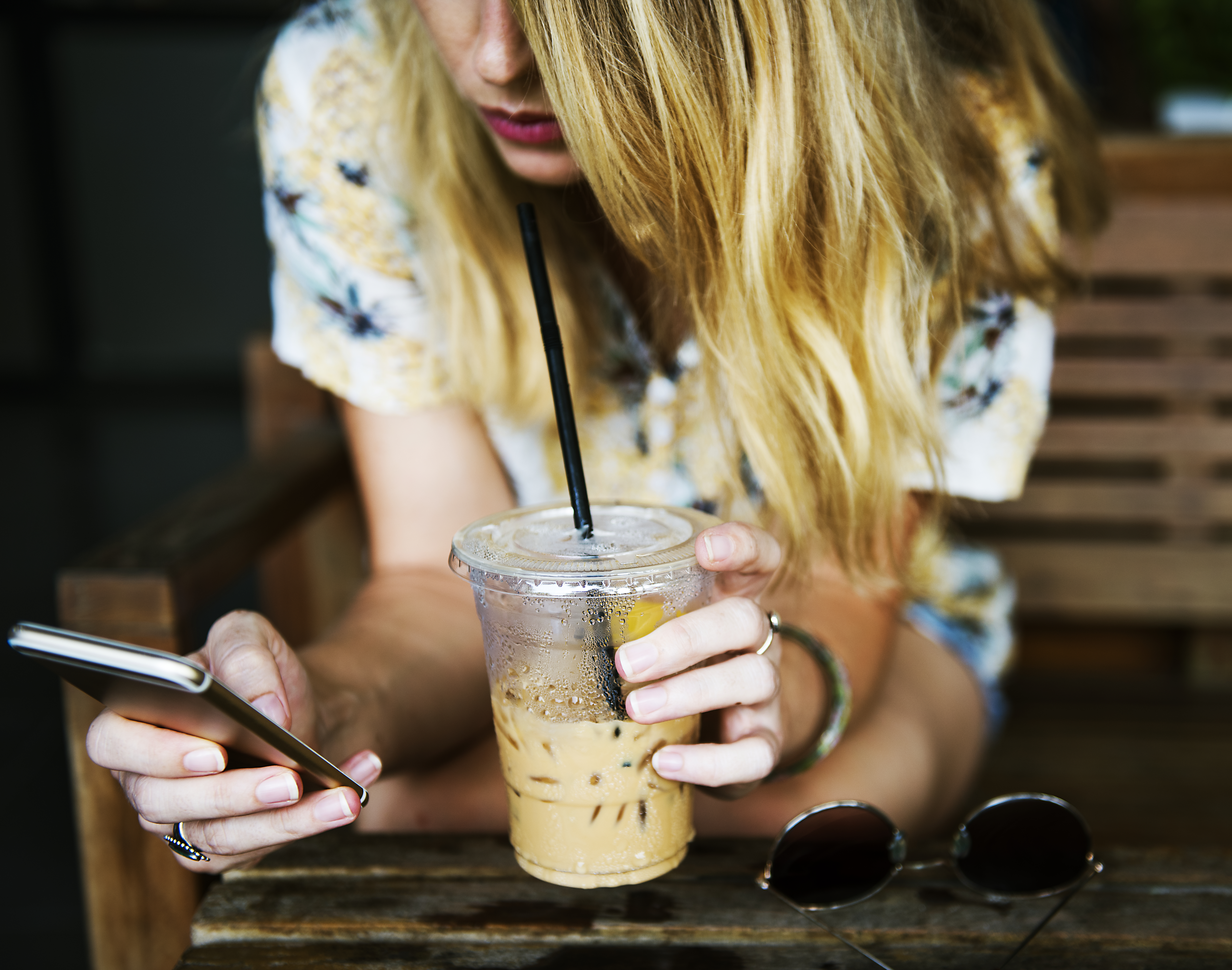 A young person using a smartphone